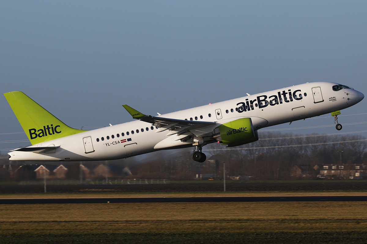 YL-CSA Air Baltic Bombardier CSeries CS300